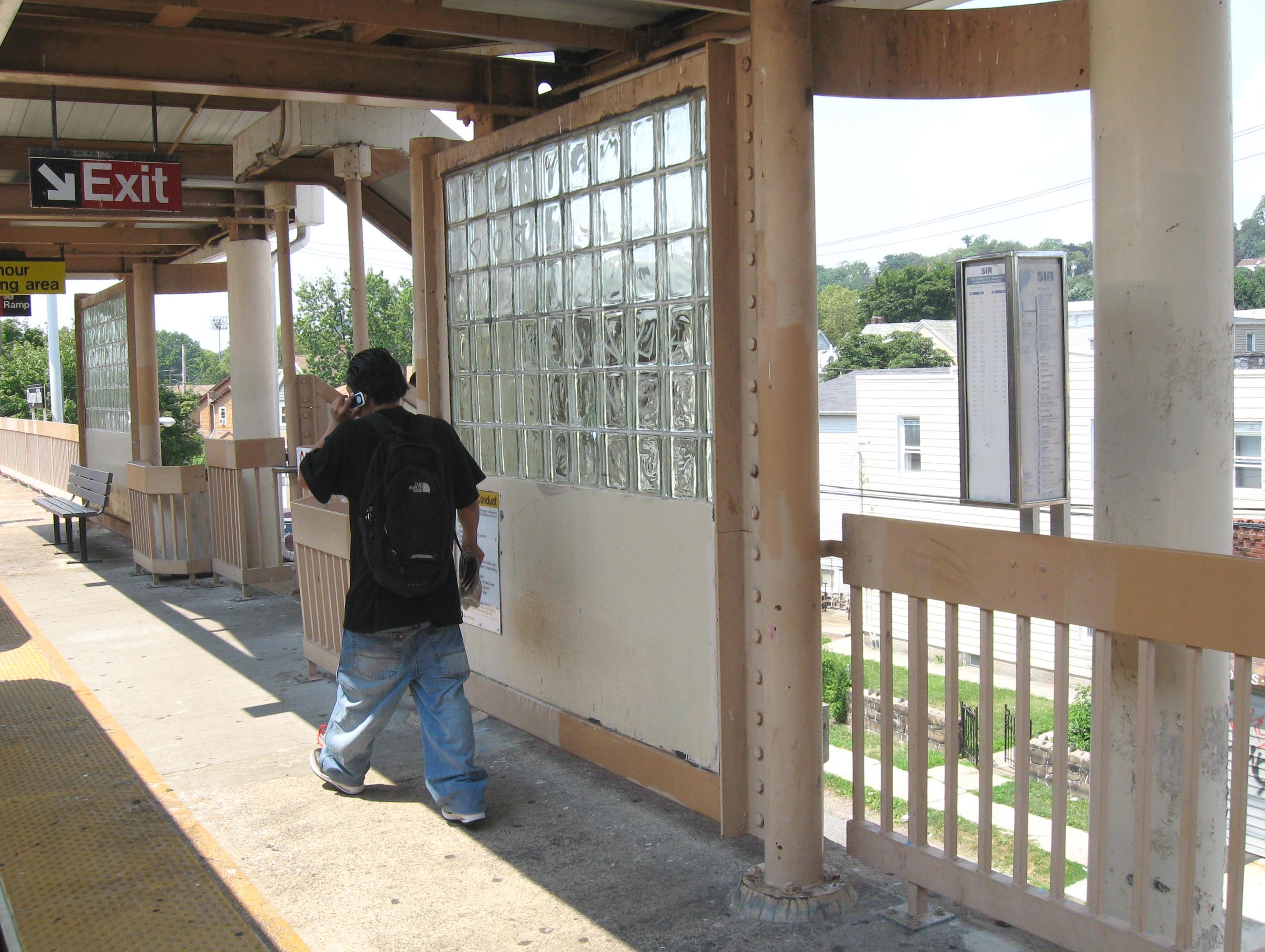 Looking west from car stopped at southbound platfrom of Dongan Hills (Staten Island Railway station) on a sunny late morning